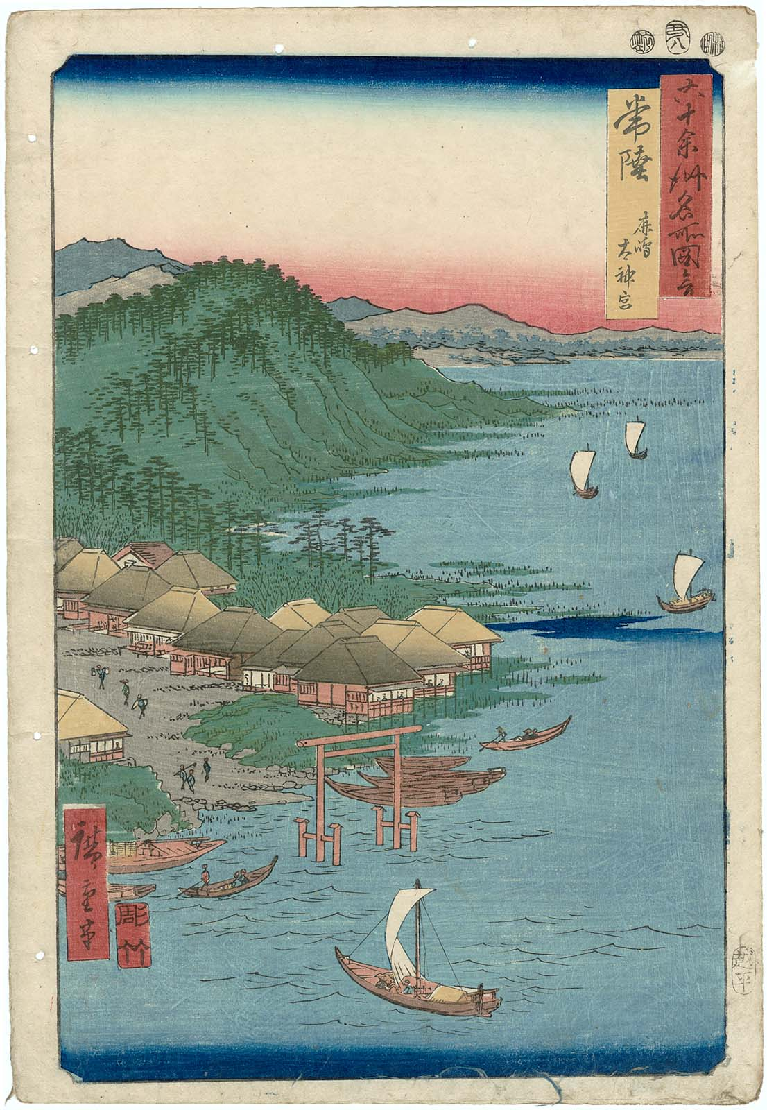 Part of the series Famous Places in the Sixty-odd Provinces, No. No. 21 (Tōkaidō group)